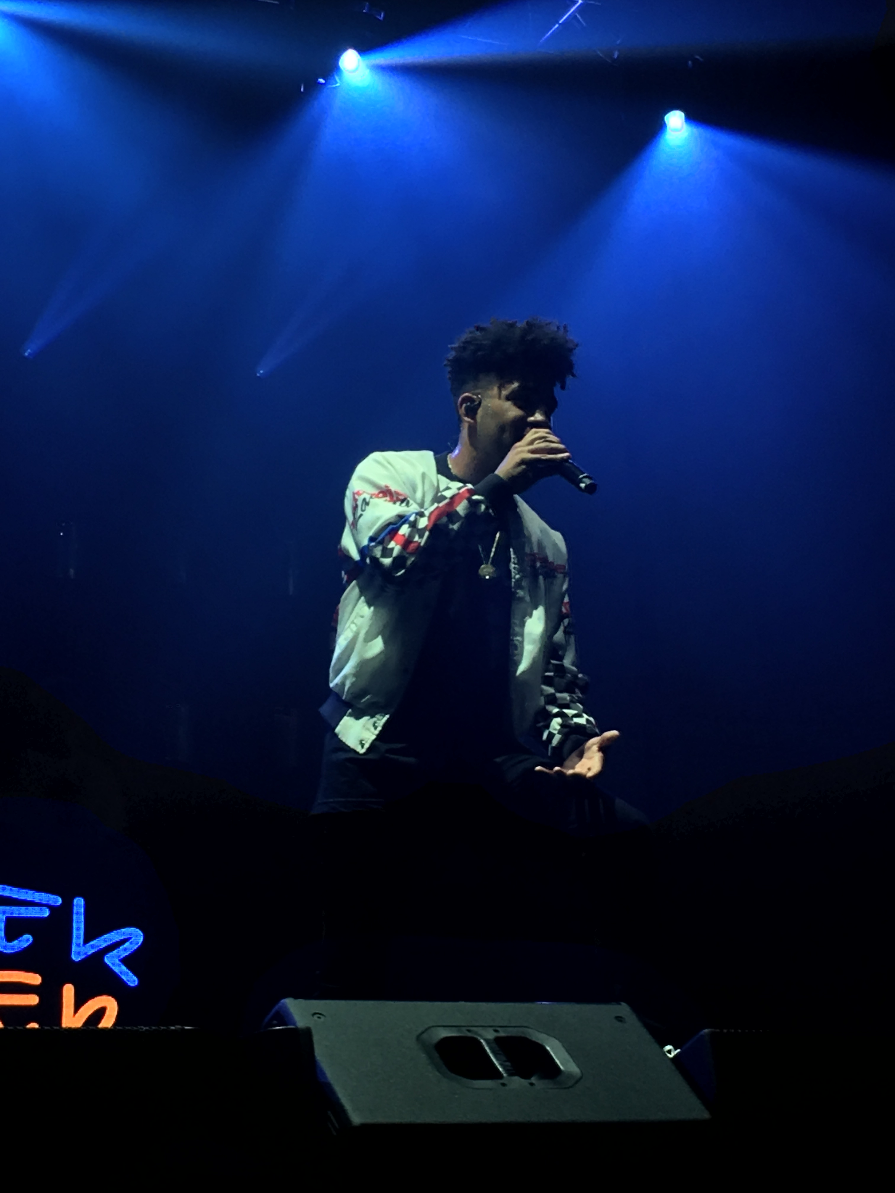 This is a photo of Kyle Thomas Harvey, also known as KYLE or Super Duper Kyle, performing at the Greatest Day Ever music festival in the Bronx, New York on July 15, 2017. This photo was taken from the front row by Kendall Copp on an iPhone SE.